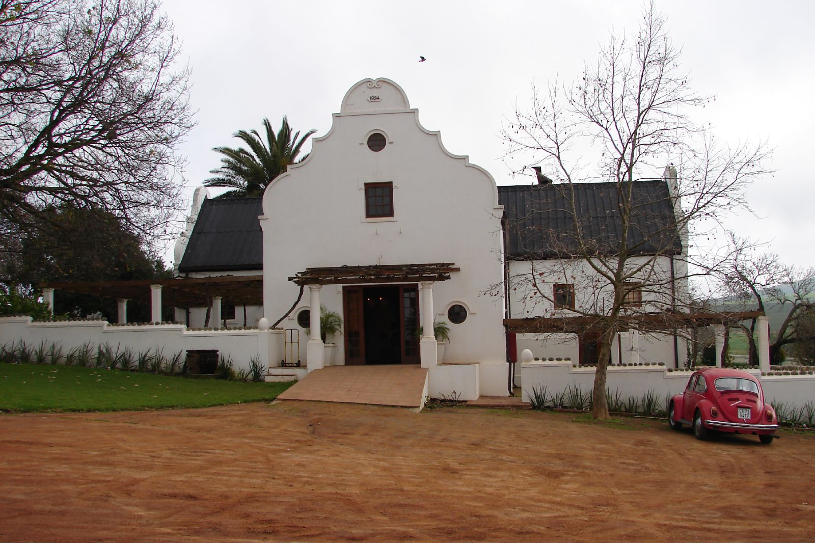 South African winery Diemersdal Wine Estate